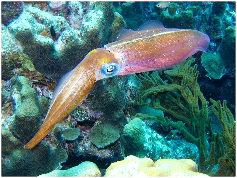 Sepioteuthis sp., Bonaire Presumably S. sepioidea, but needs confirmation. Dysmorodrepanis (talk) 15:39, 9 May 2012 (UTC)